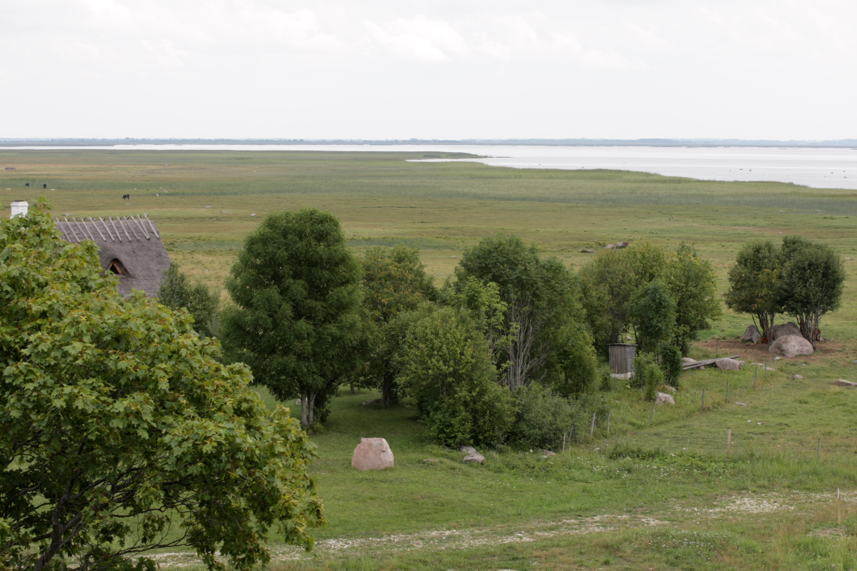 The coast near Haeska, a village in Ridala municipality, Lääne County, Estonia